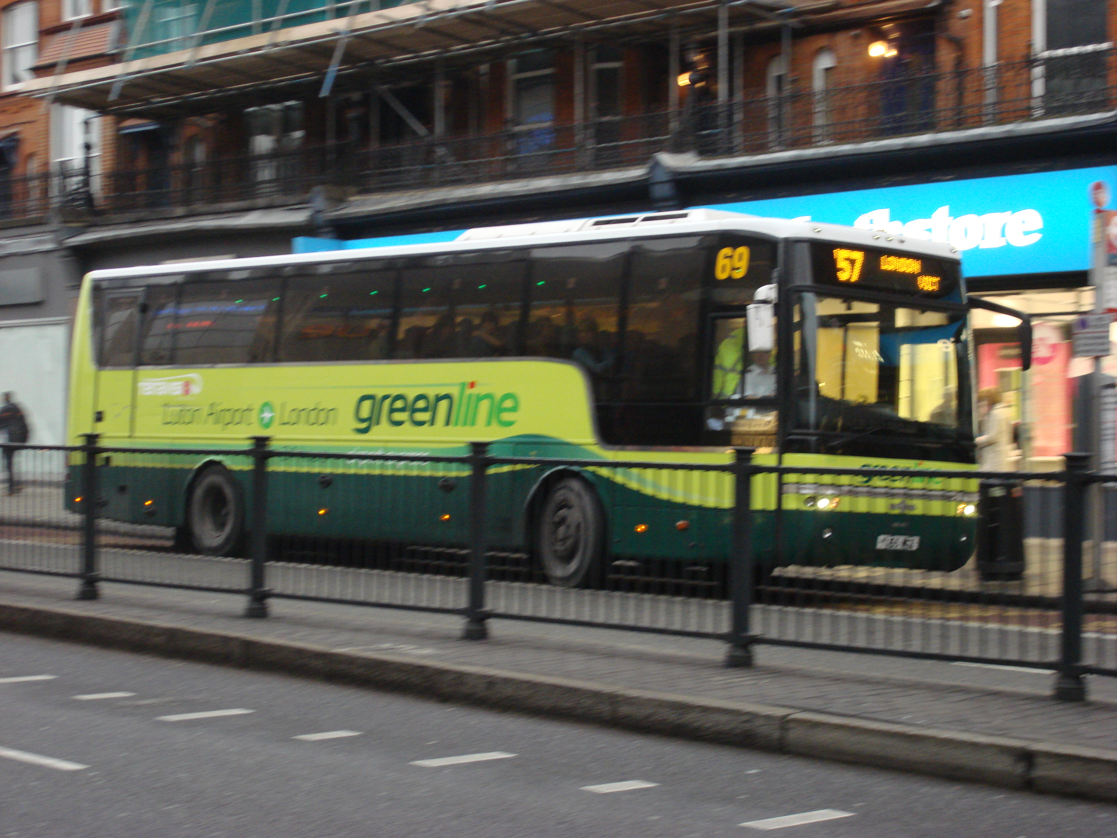 A Green Line Van Hool coach on Finchley Road, London.